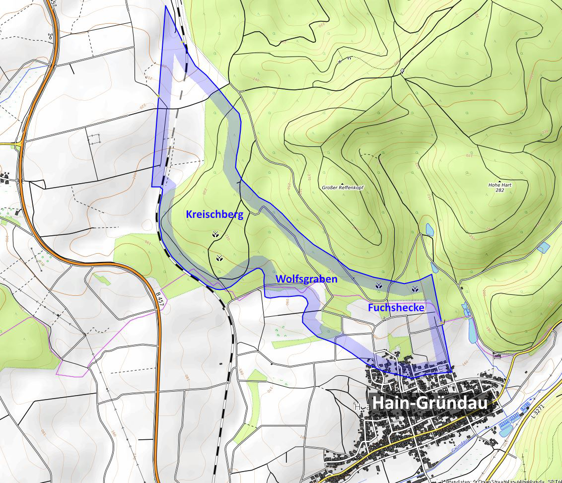 Mining areas north and north-west of Hain-Gründau, marked in blue.